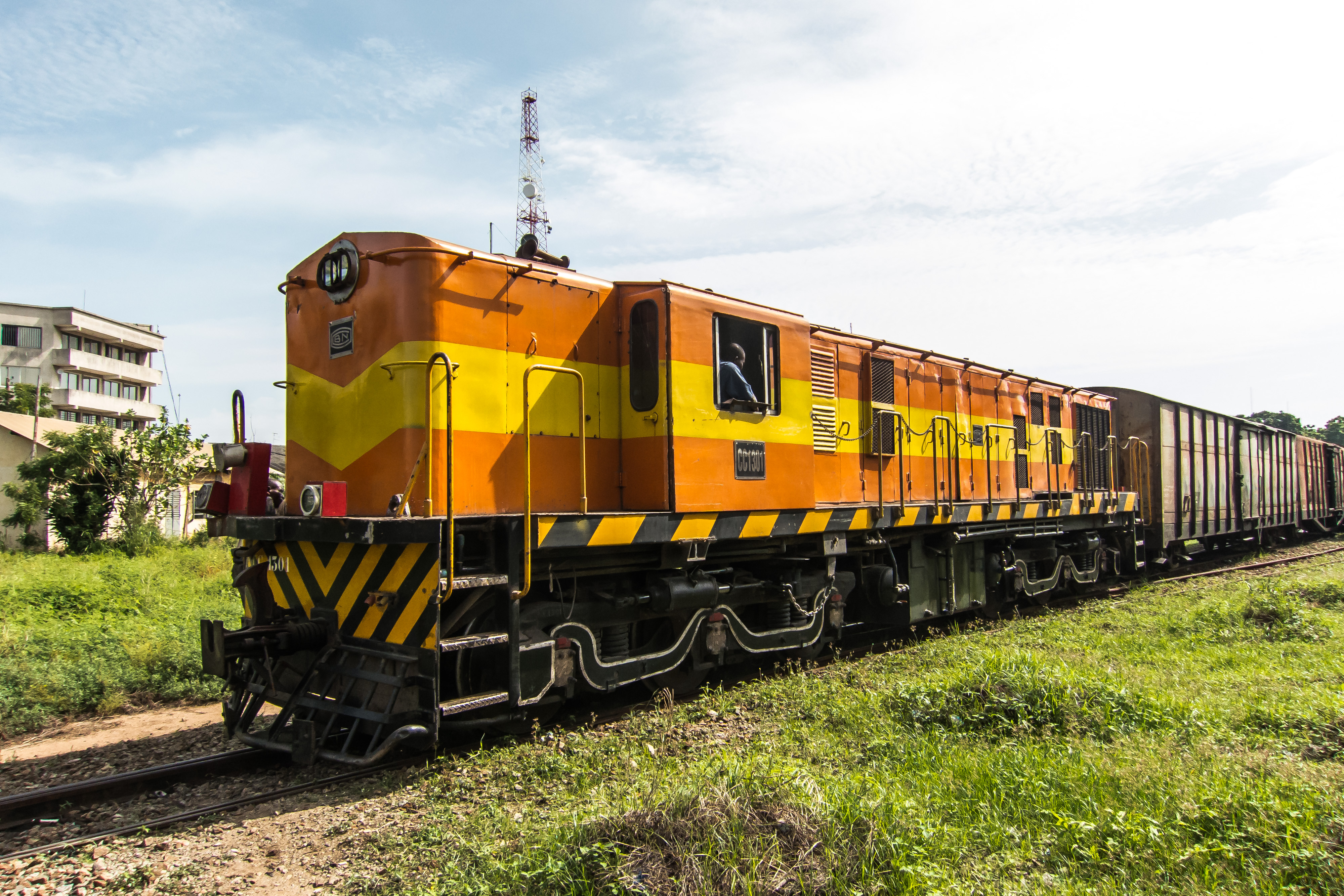 Organisation Commune Bénin Niger (OCBN) locomotive CC1301 works the yard in Cotonou, Benin. This is one of set of three six-axel locomotives (CC1301, CC1302, and CC1303) purchased from the Indian company RITES, Ltd in 2008.